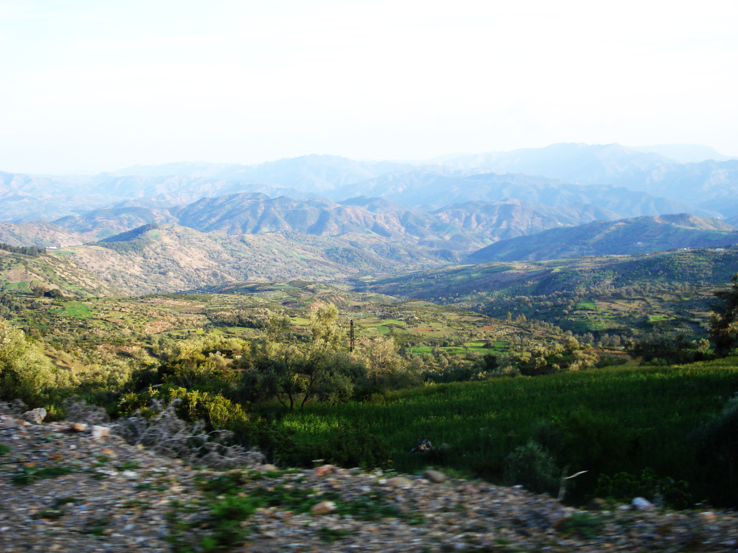 Rif Mountains in the province of Chefchaouen. Friday, April 16, 2007.